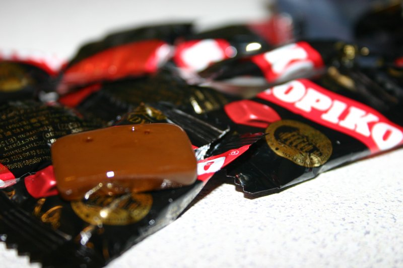 A Kopiko confectionary rests on Kopiko packetsKopiko (confectionery) Mayora Indah